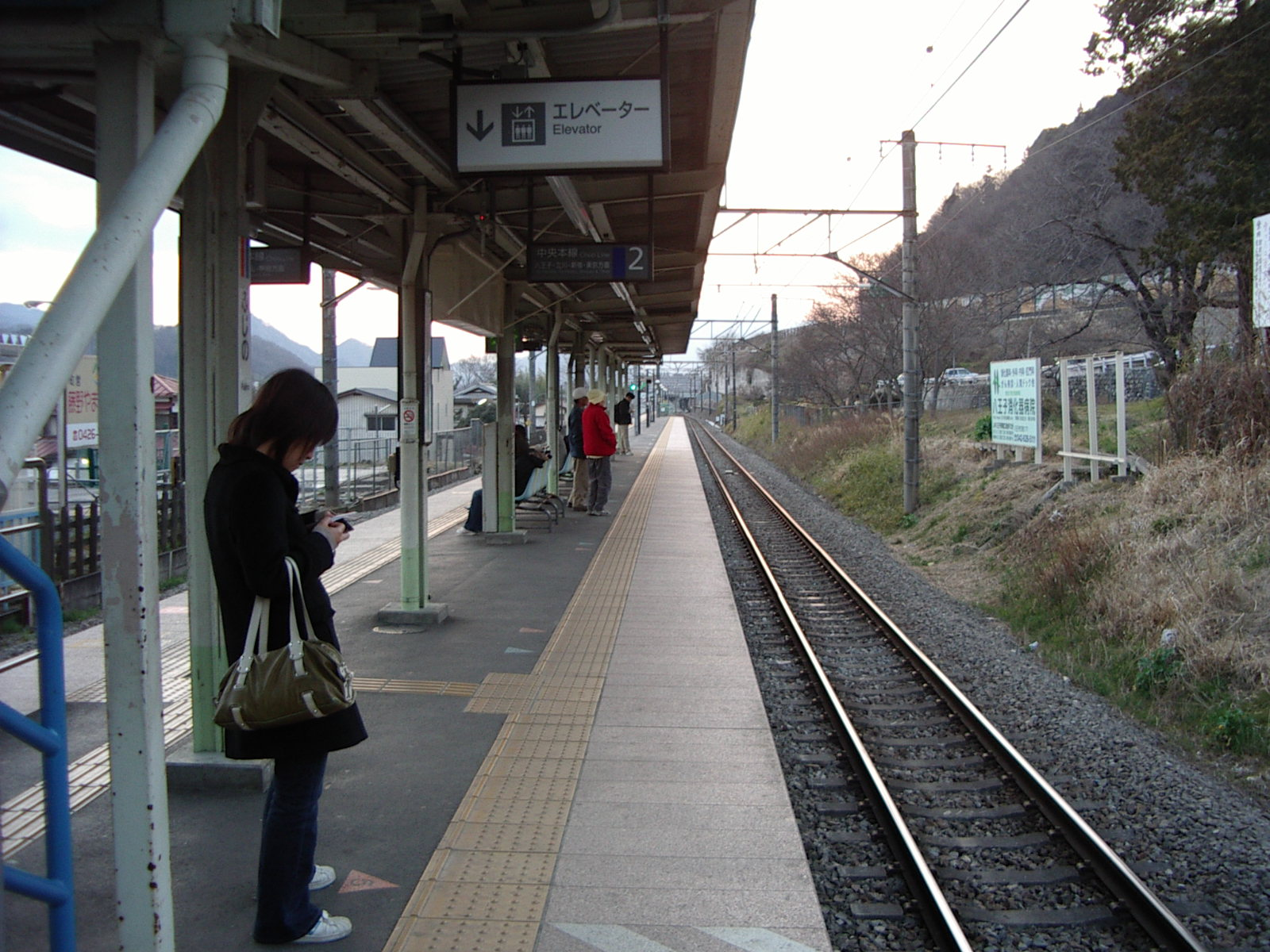 JR Iwaki station on JR Joban line and Banetu-tou Line. This station is located at Iwaki, Fukushima.